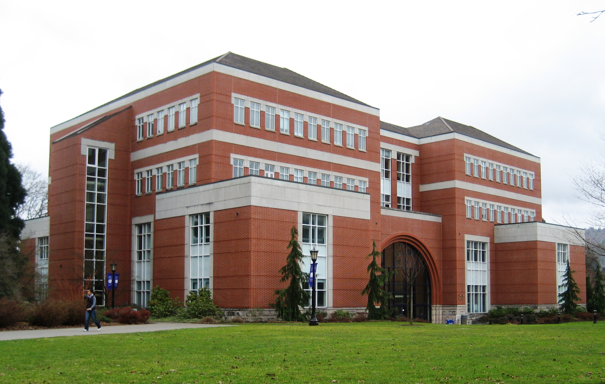 Franz Hall at Univ. of Portland in Portland, Oregon, USA